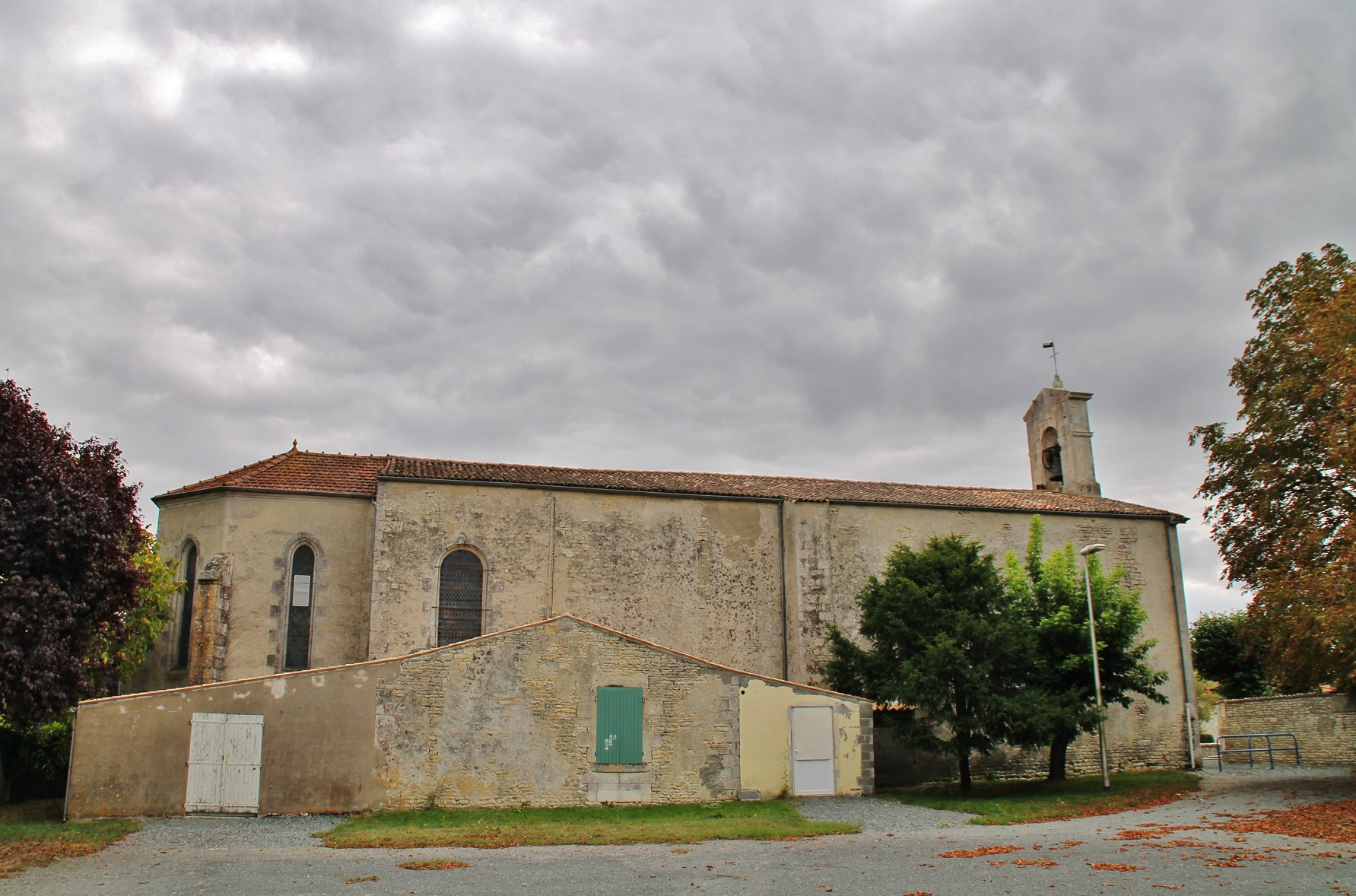 église st André